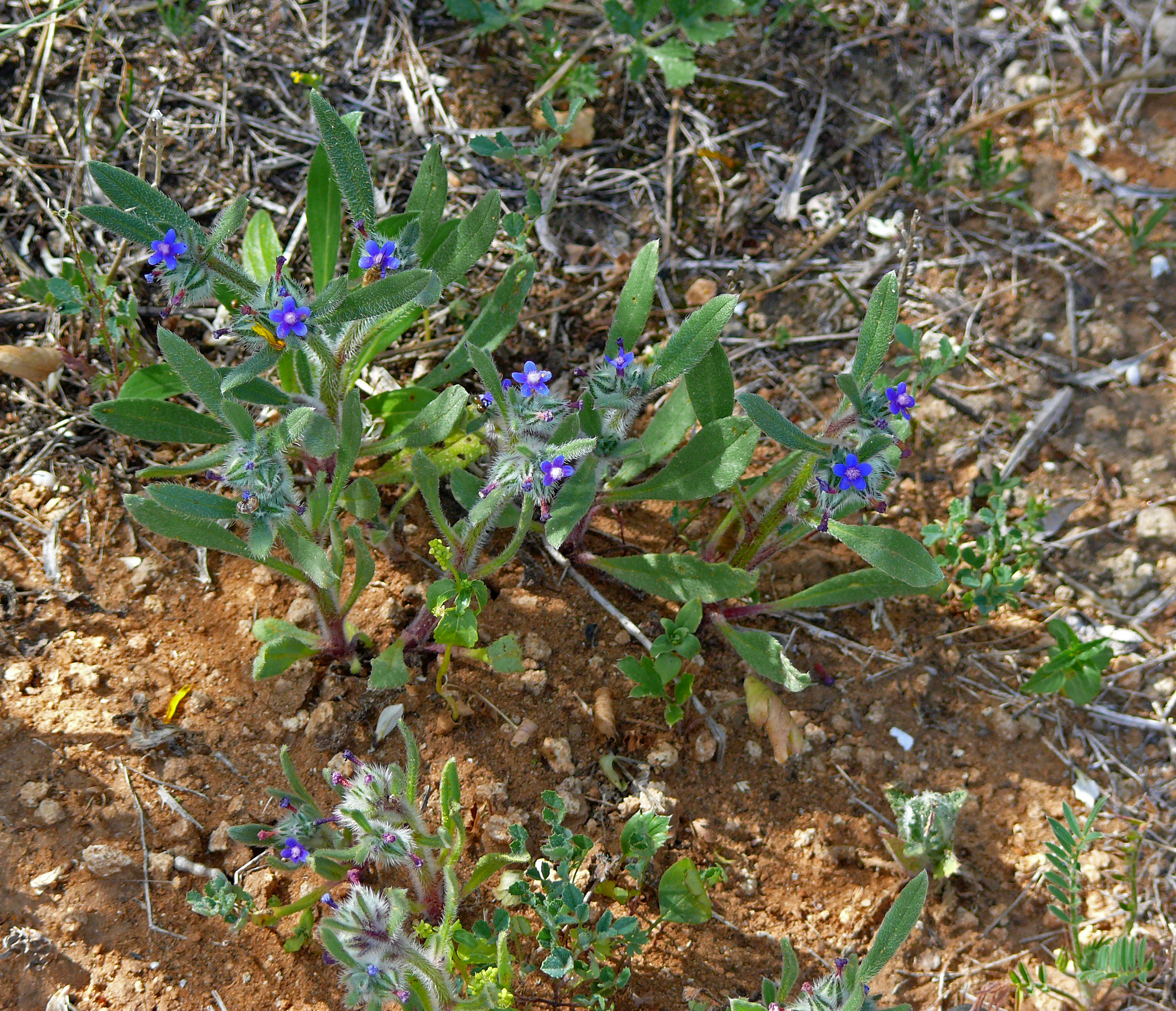 Anchusa aggregata (Hormuzakia aggregata), Ness Ziona, Israel